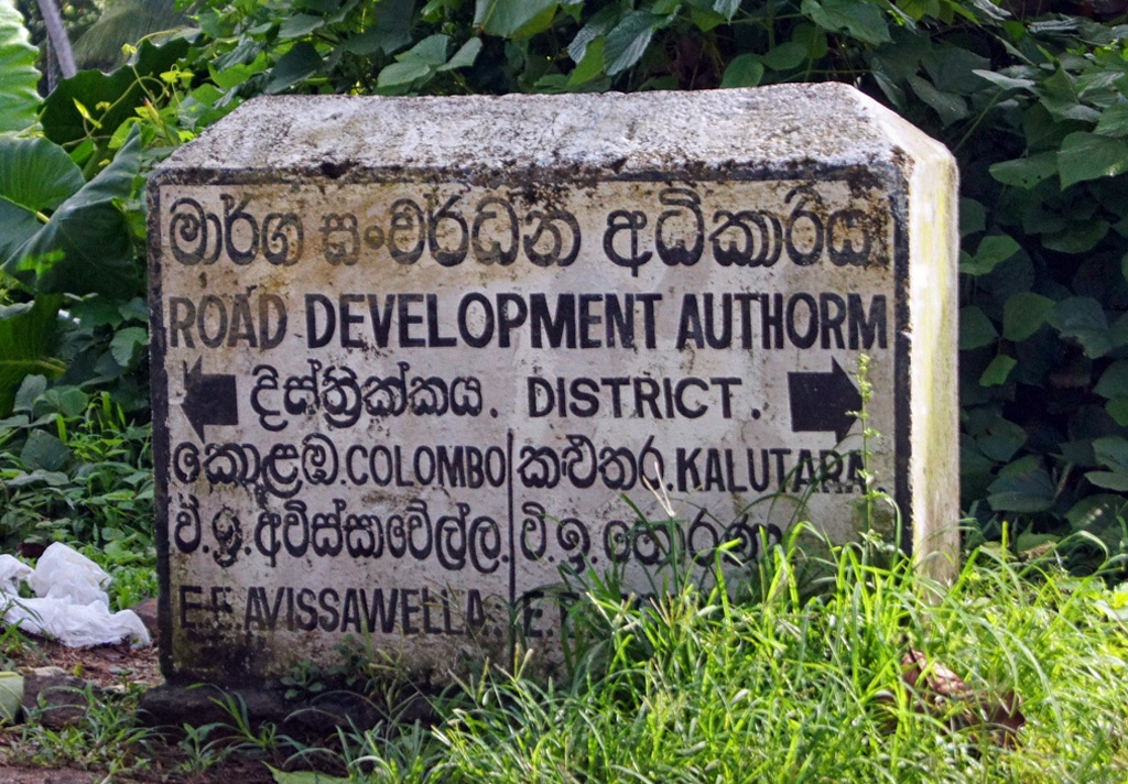 Ingiriya Location03